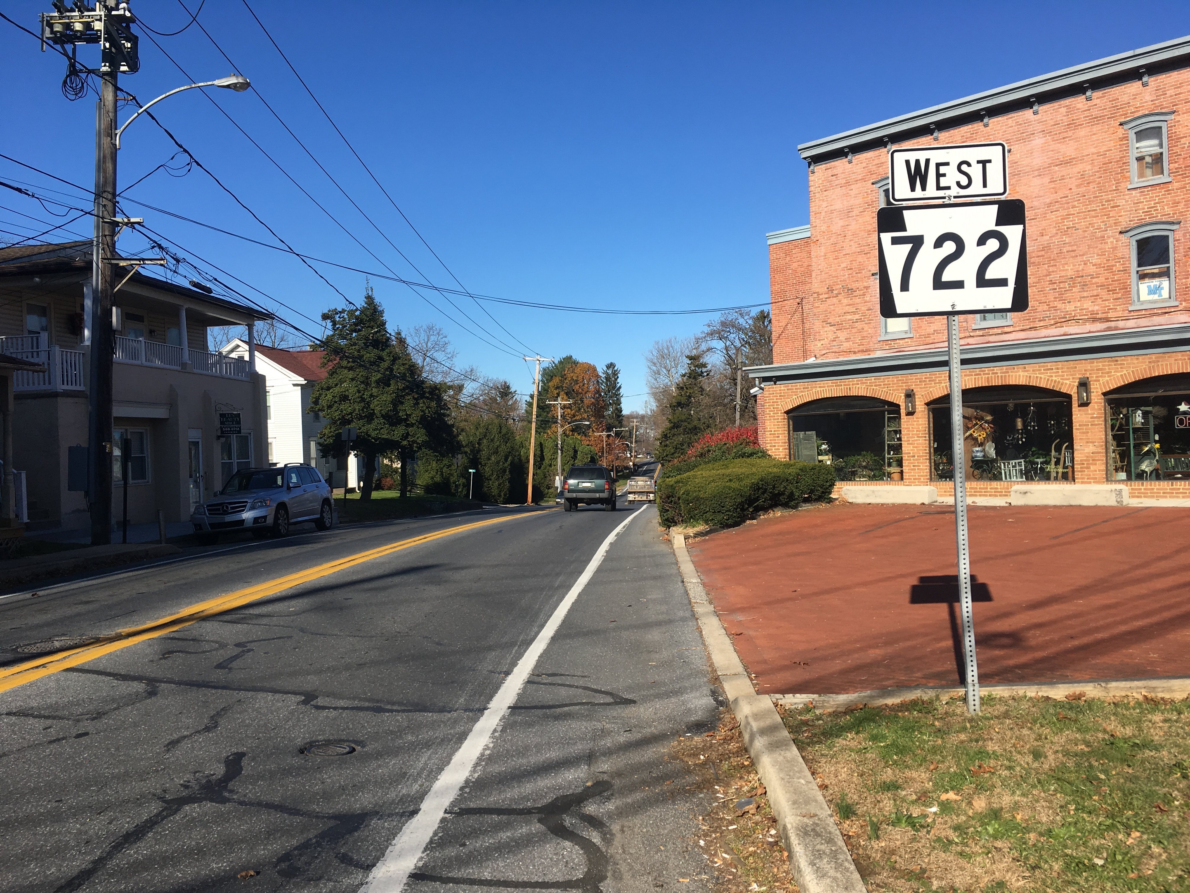 Westbound Pennsylvania Route 722 (Petersburg Road) past the intersection with Pennsylvania Route 501 (Lititz Pike) in Neffsville, Pennsylvania